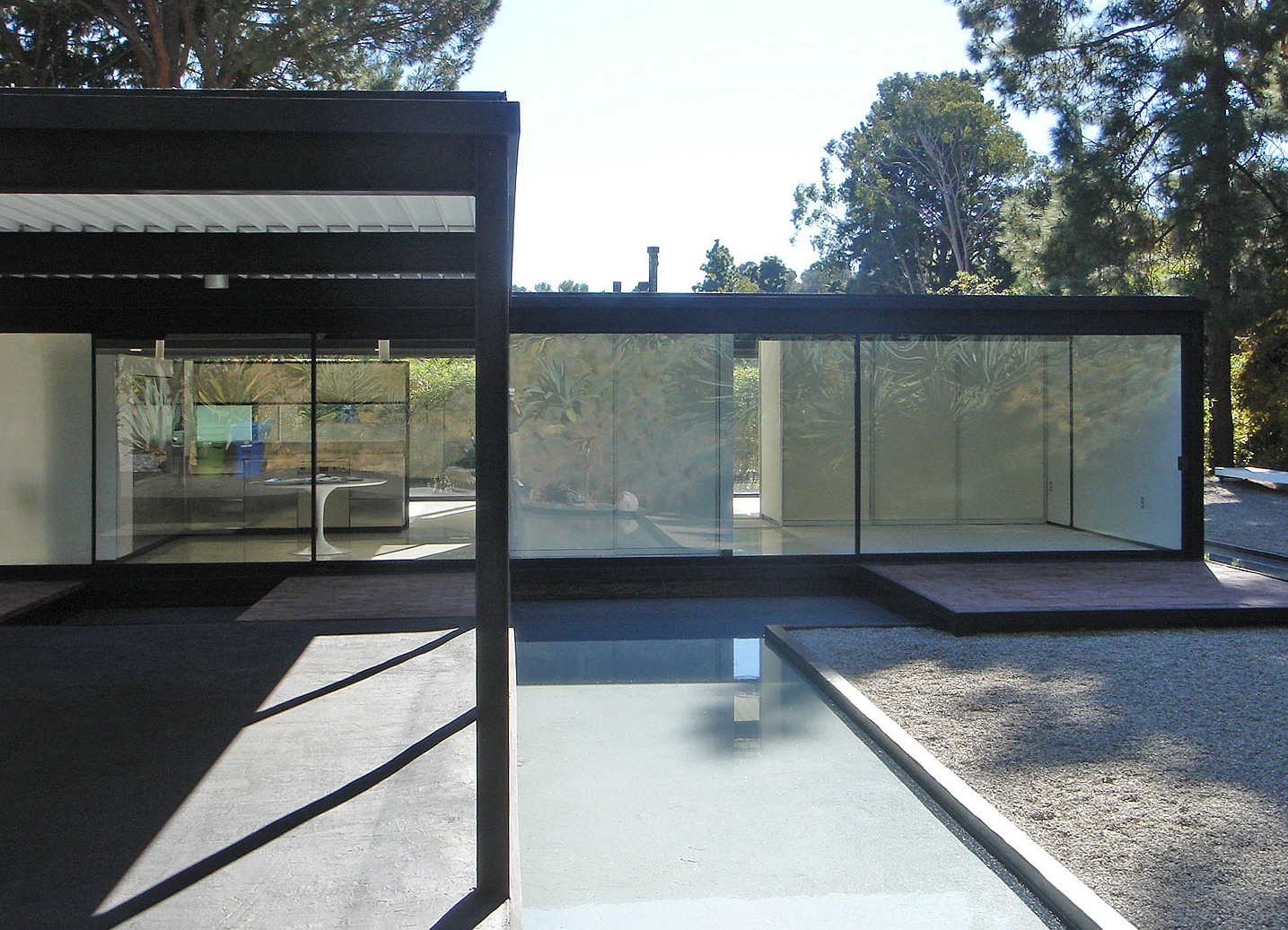 Bailey House – Case Study House 21 — 9038 Wonderland Park Ave, Los Angeles, California. Designed by Pierre Koenig in 1959, for the Case Study Houses program. "Marvellous blend of cubic shapes, nature, and light. I was lucky: the house is currently being sold, so I could walk around it and take a close look."Case Study #21